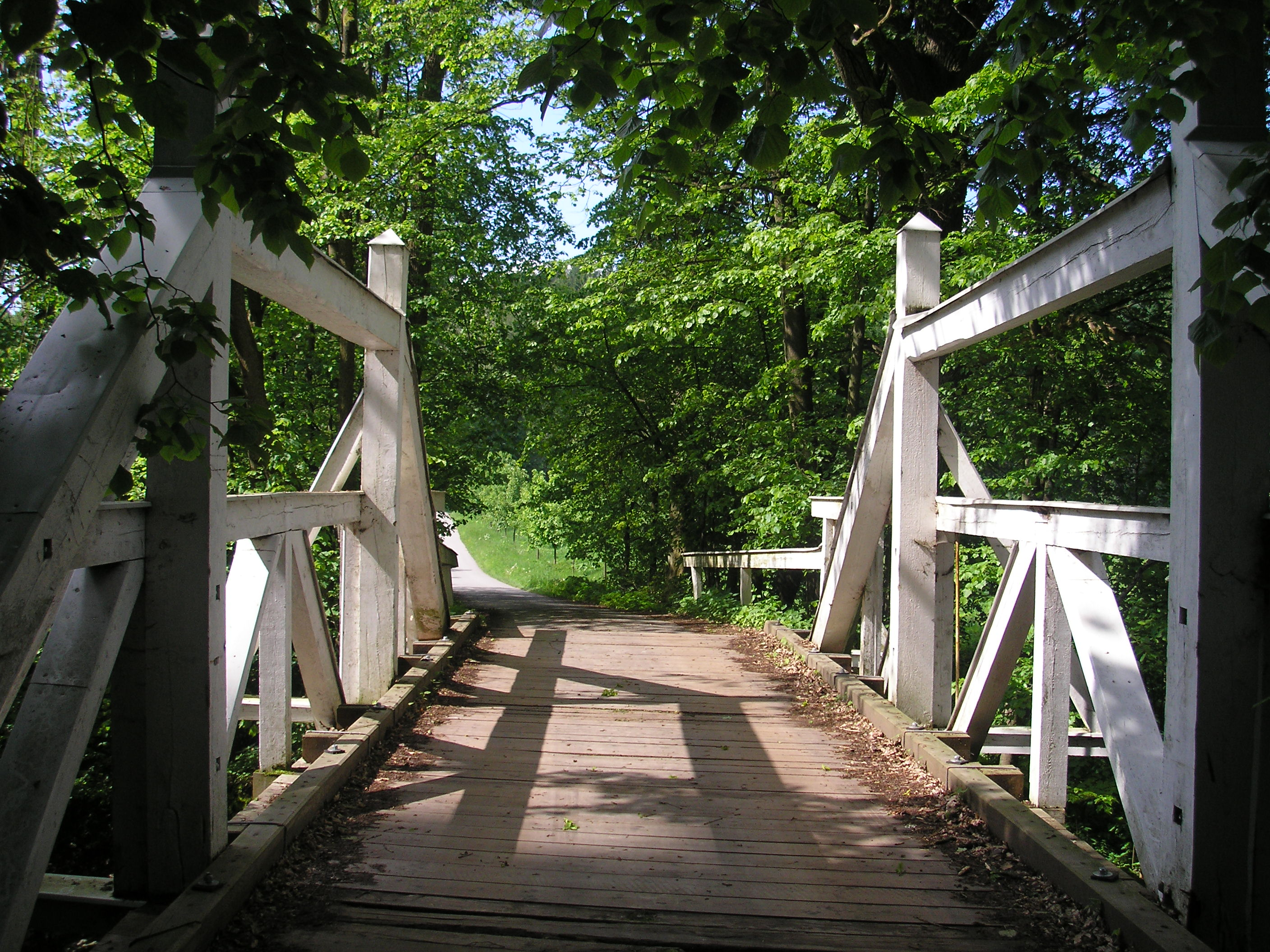 White bridge (Bílý most) in Babiččino údolí